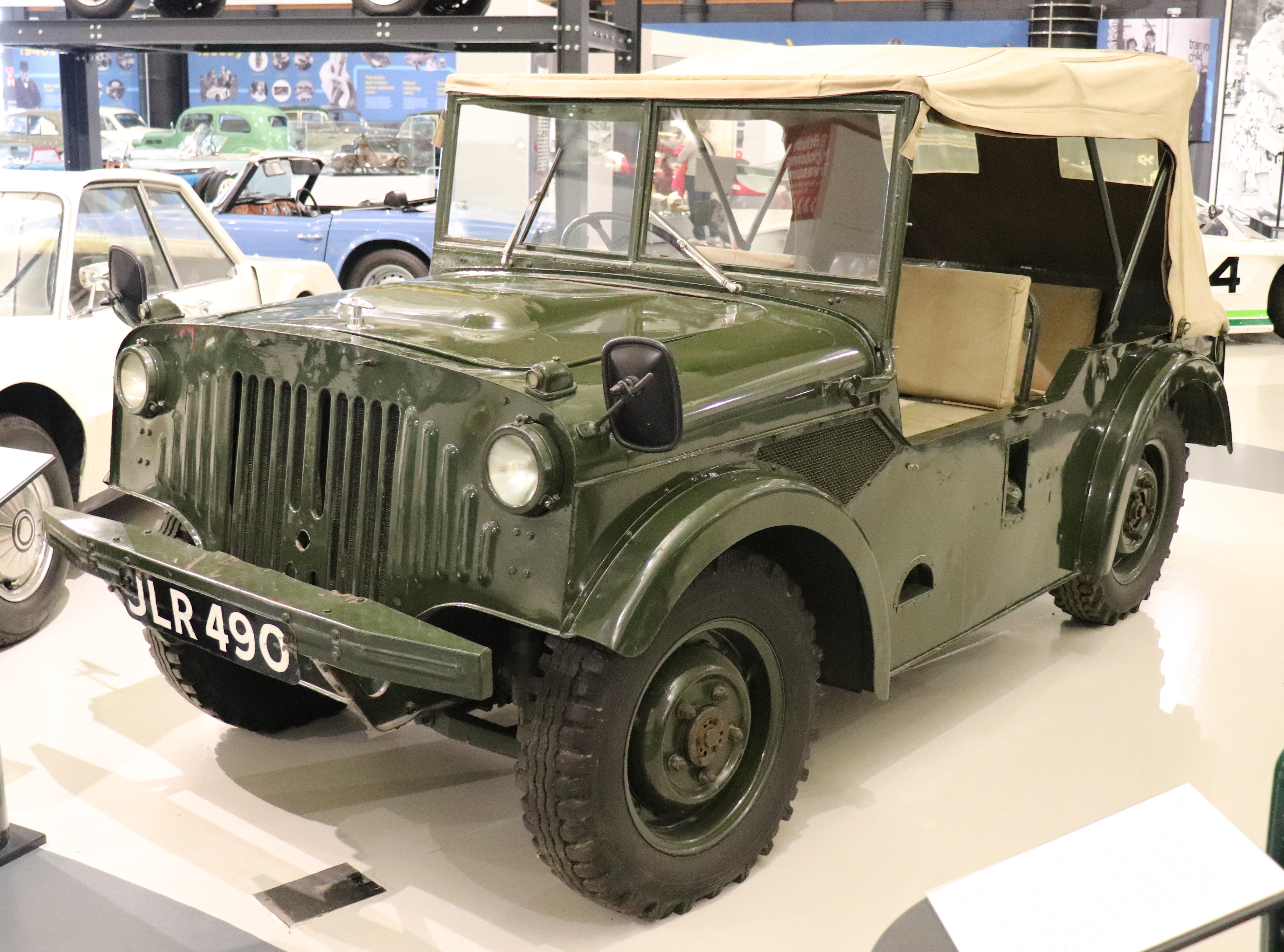 1947 Nuffield 'Gutty' 1.8 Taken at the British Motor Museum, Gaydon